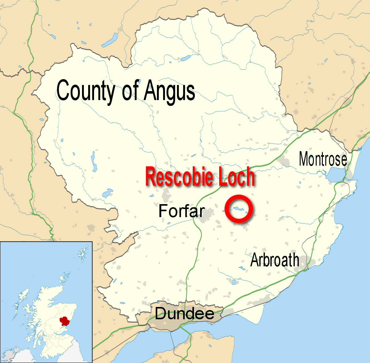 Blank map of Angus, UK with the following information shown: *Administrative borders *Coastline, lakes and rivers *Roads and railways *Urban areas Equirectangular map projection on WGS 84 datum, with N/S stretched 180% Geographic limits: *West: 3.5W *East: 2.4W *North: 57.0N *South: 56.4N